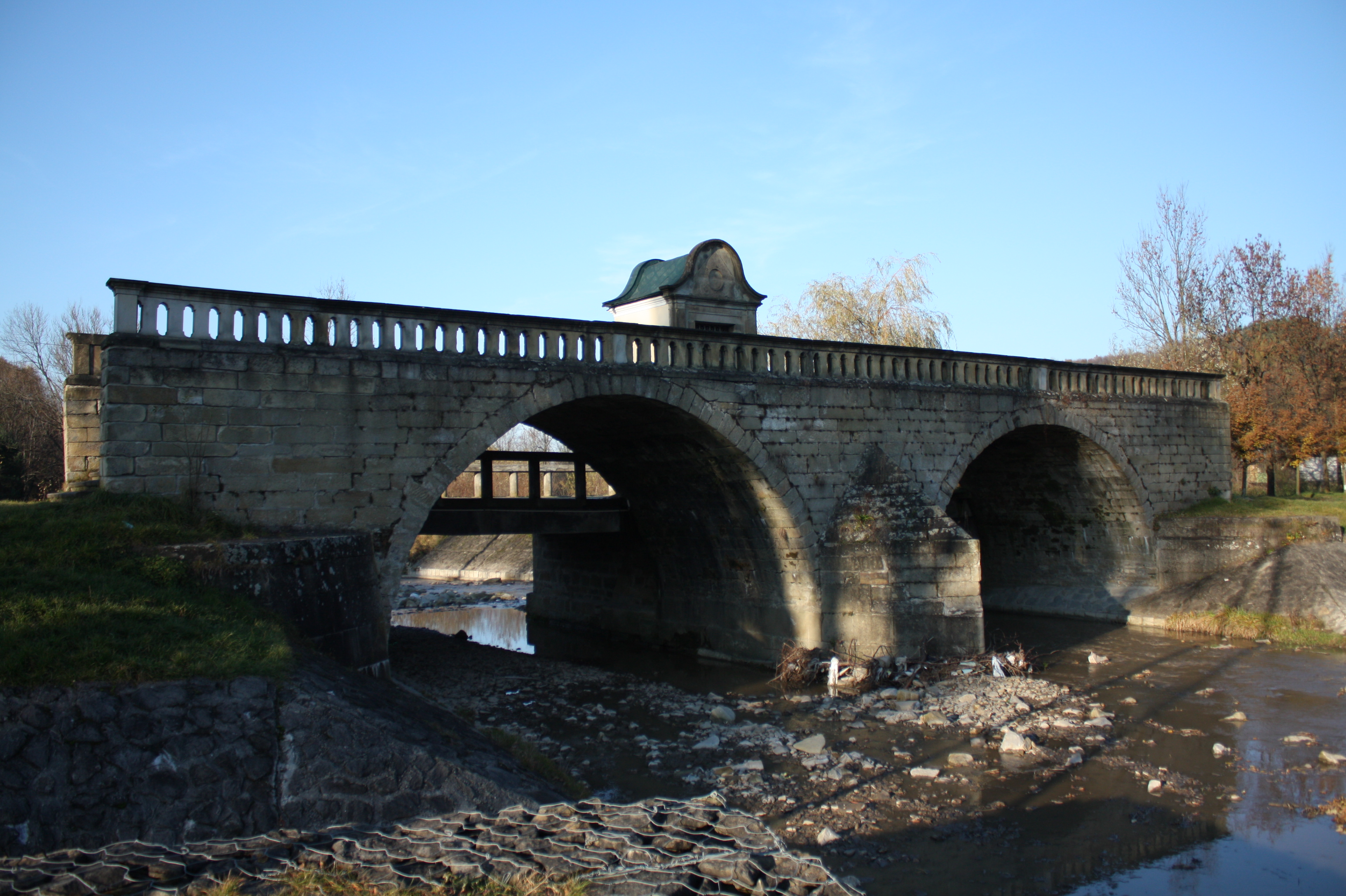 Chapel on the Cedron